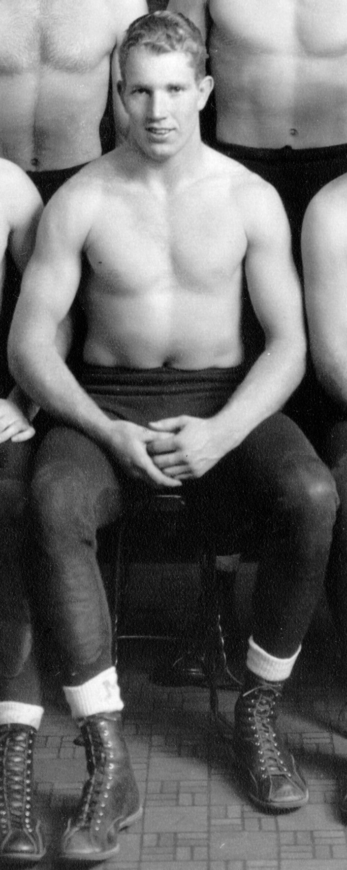 Photograph of John Greene cropped from team portrait of the 1944 Michigan Wolverines wrestling team This work is in the public domain in the United States because it was published in the United States between 1925 and 1977, inclusive, without a copyright notice. For further explanation, see Commons:Hirtle chart as well as a detailed definition of "publication" for public art. Note that it may still be copyrighted in jurisdictions that do not apply the rule of the shorter term for US works (depending on the date of the author's death), such as Canada (50 p.m.a.), Mainland China (50 p.m.a., not Hong Kong or Macao), Germany (70 p.m.a.), Mexico (100 p.m.a.), Switzerland (70 p.m.a.), and other countries with individual treaties.